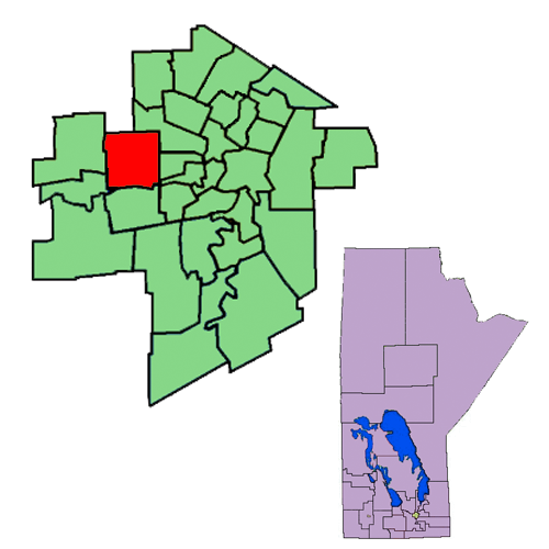 The 1999-2011 boundaries for the St. James electoral district highlighted in red